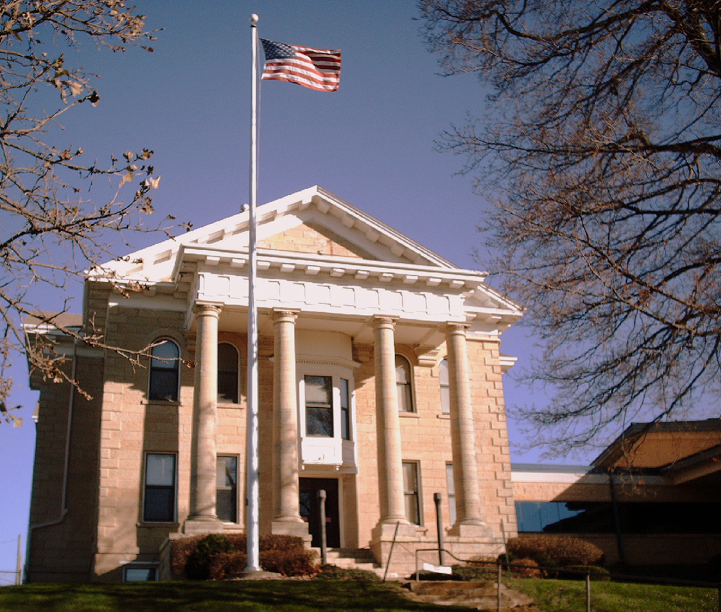 Dodge County Courthouse as seen from Minnesota State Highway 57 in Mantorville, Minnesota, United States